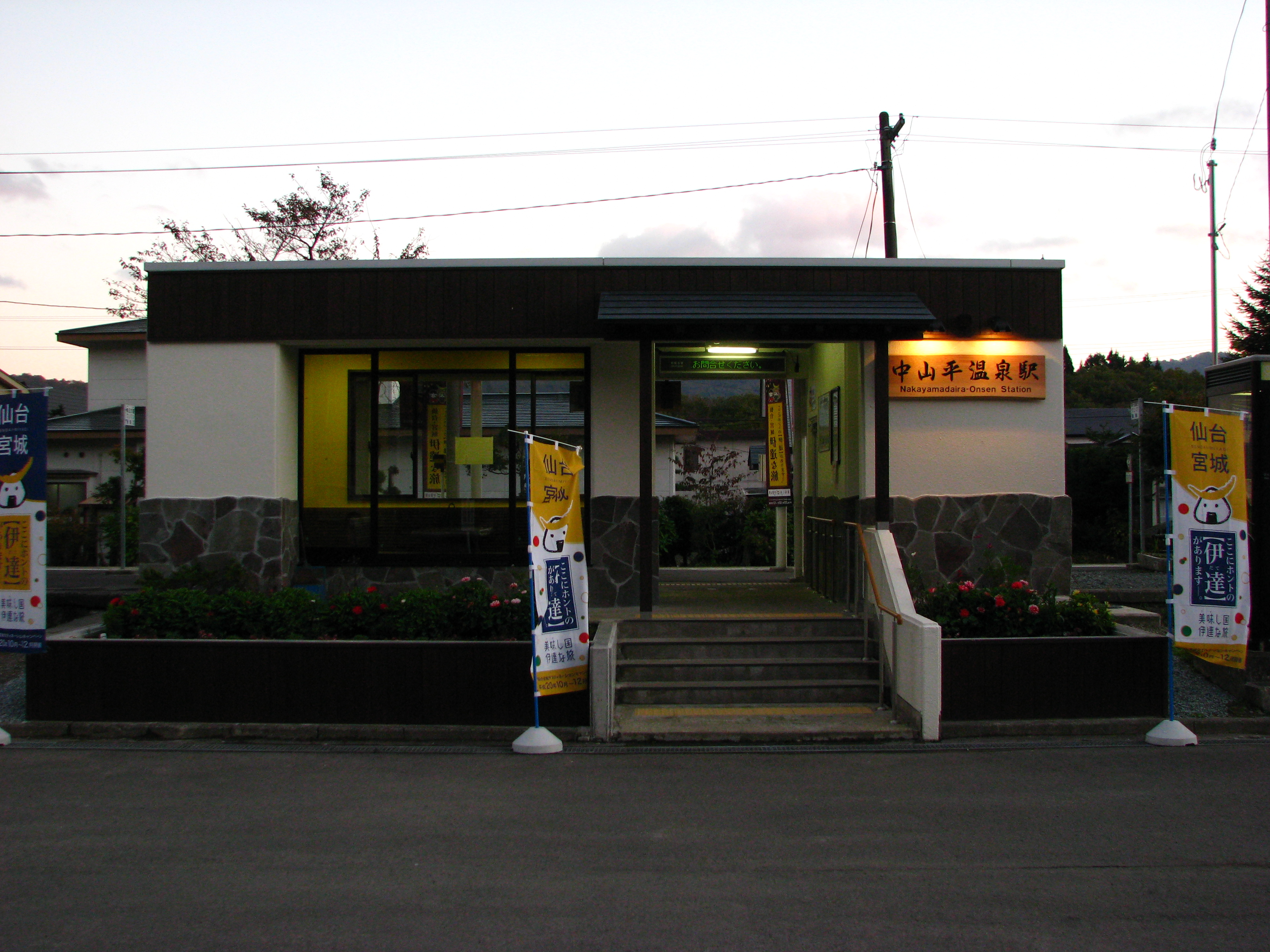 Nakayamadaira-Onsen Station, Miyako, Miyagi, Japan